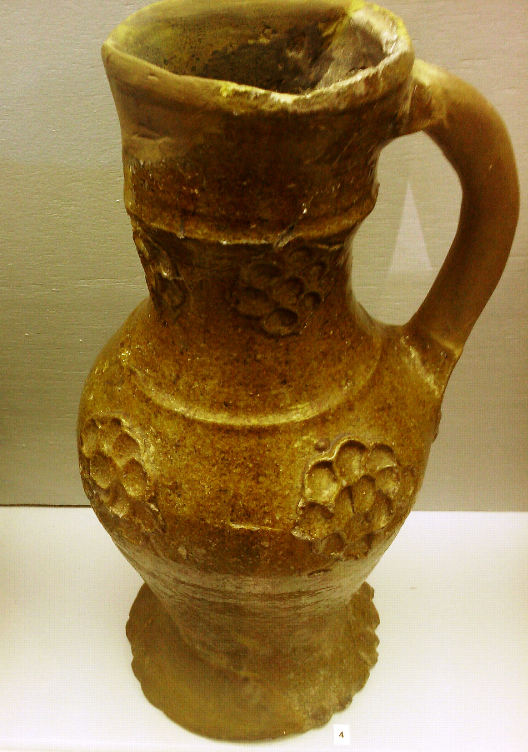 Burley Hill type ware from 13-14th century found in St Pters Street Derby and now in Derby Museum, England